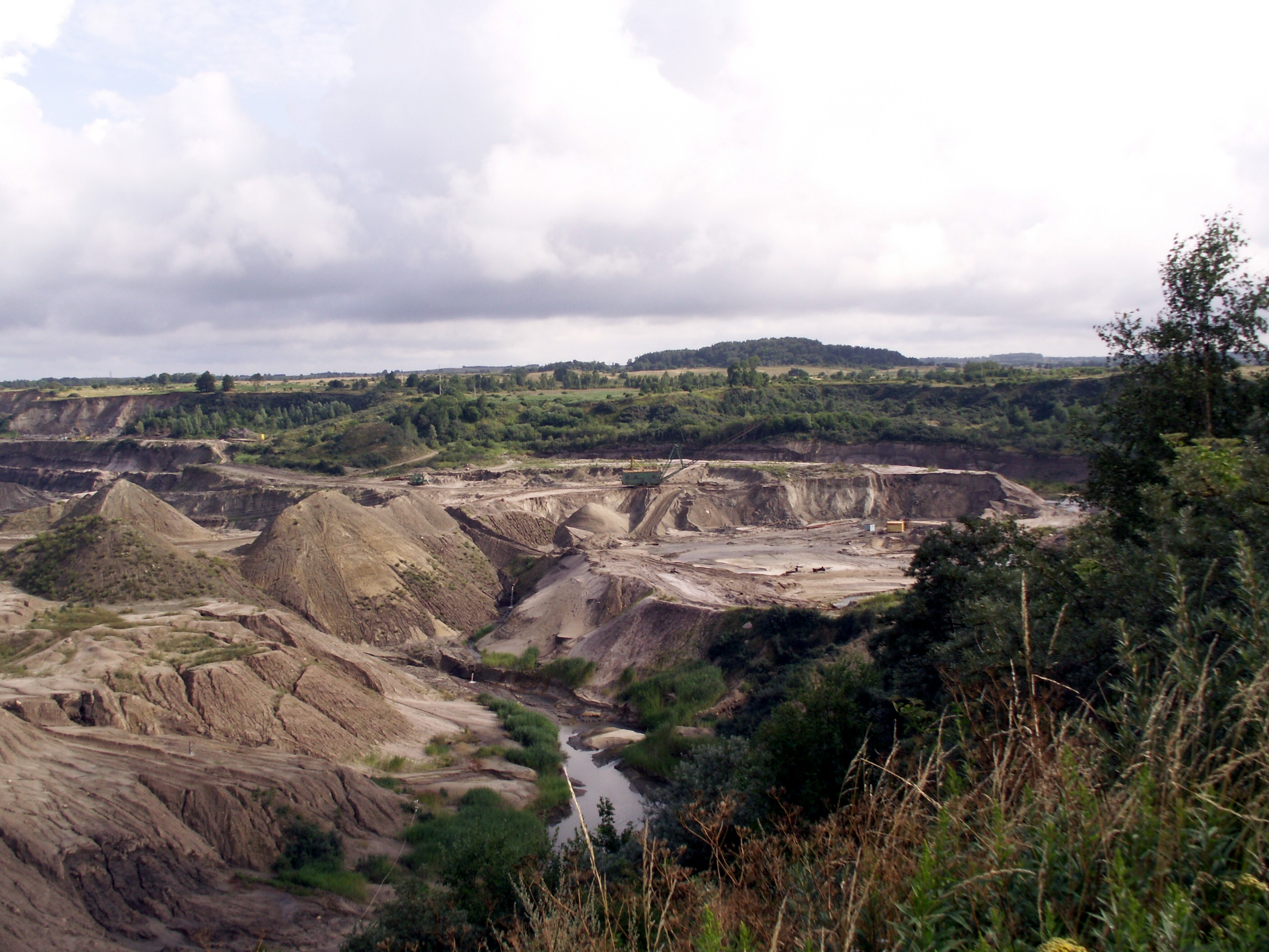 Yantarny amber factory in Kaliningrad oblast